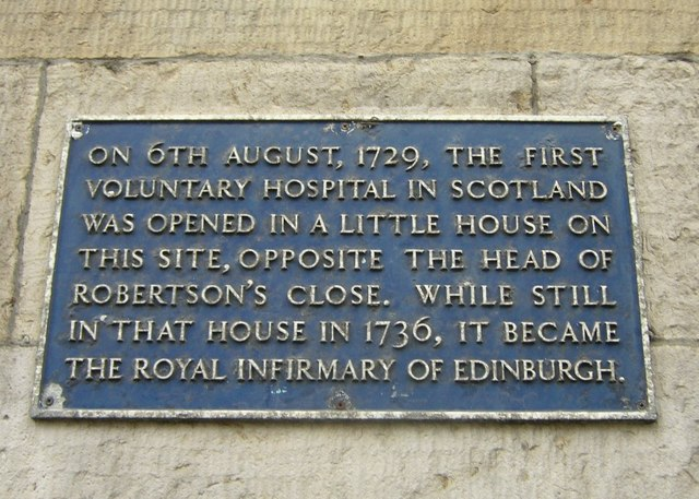 Infirmary Street plaque A plaque marking the humble beginning of what was to become one of the world's most famous medical schools.